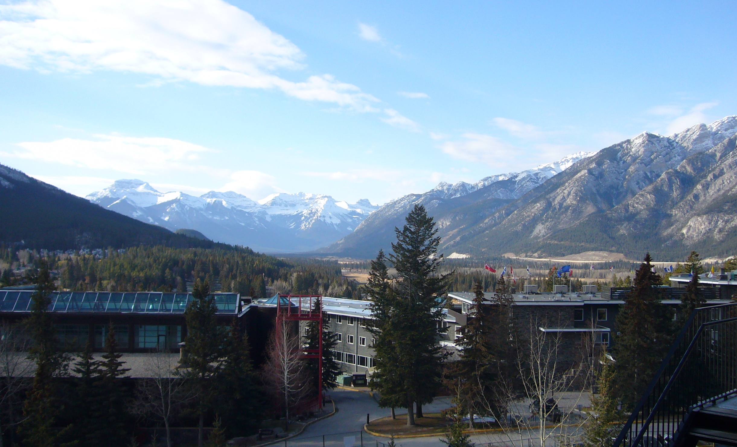 Buildings at Banff Centre, Banff, Alberta, Canada.